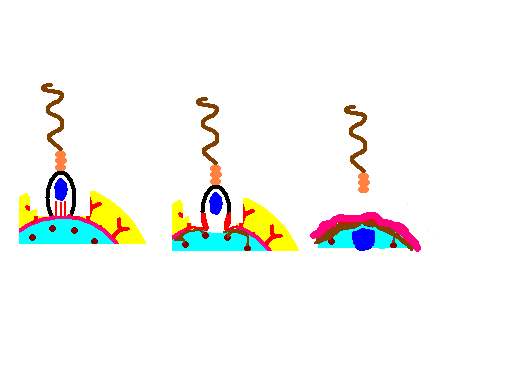 This diagram represents the release of cortical secretions from the egg's cortical granules which separates the plasma membrane to form the fertilization membrane as the sperm nucleus is pulled into the cytoplasm of the egg.